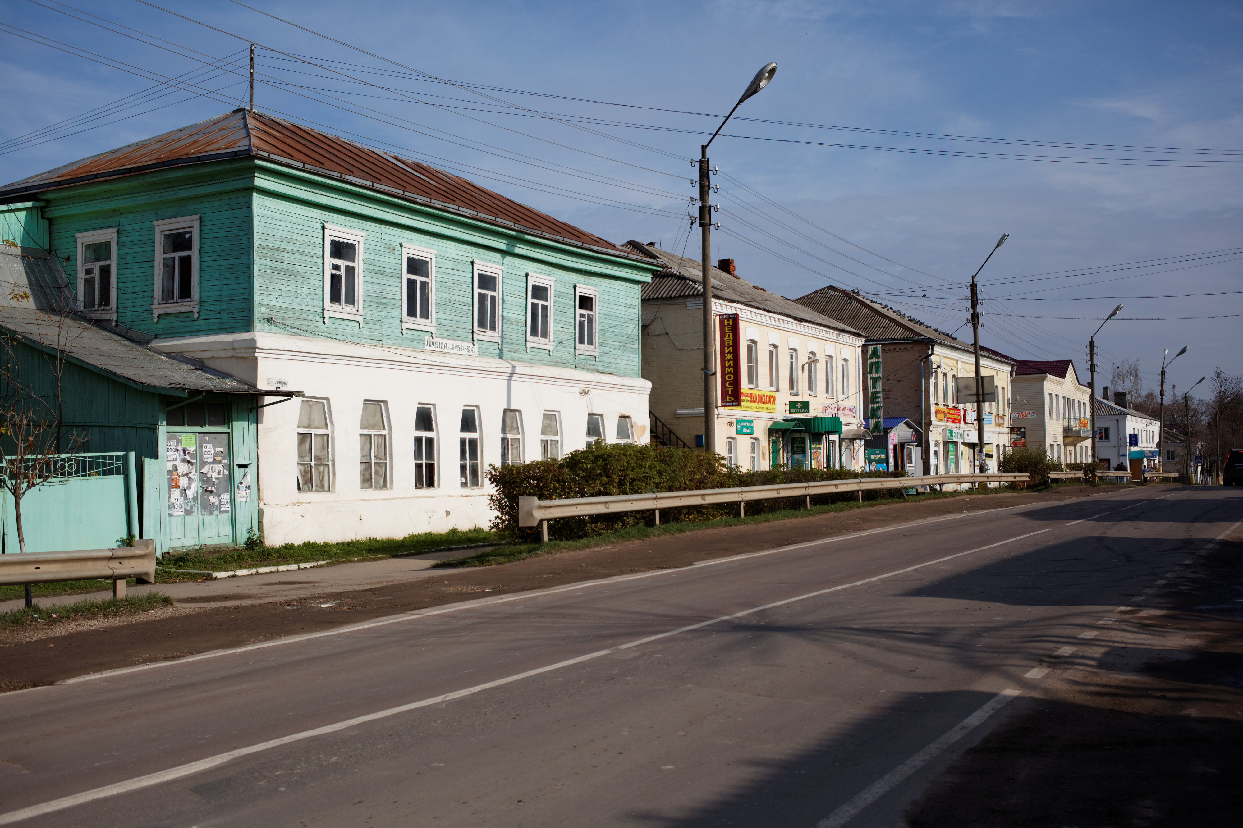 Lenin Street in Medyn